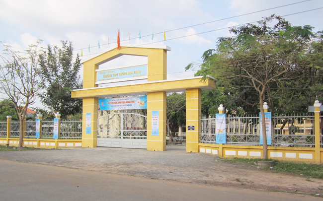 Dương Minh Châu